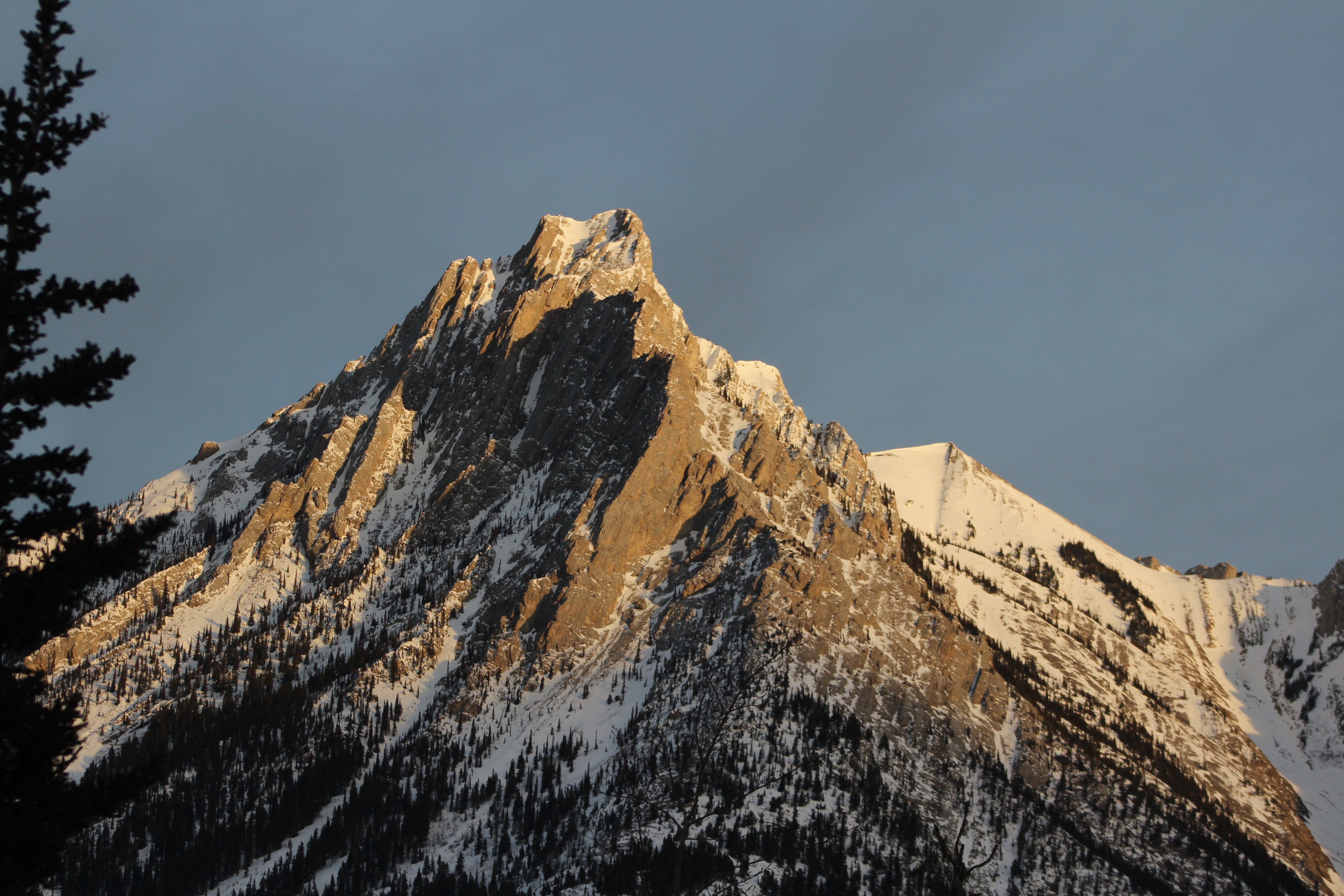 Kananaskis country heading south stopped in a lay-by for a defrost